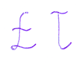 Handwritten Ł and ł letters, showing the placement of stroke.